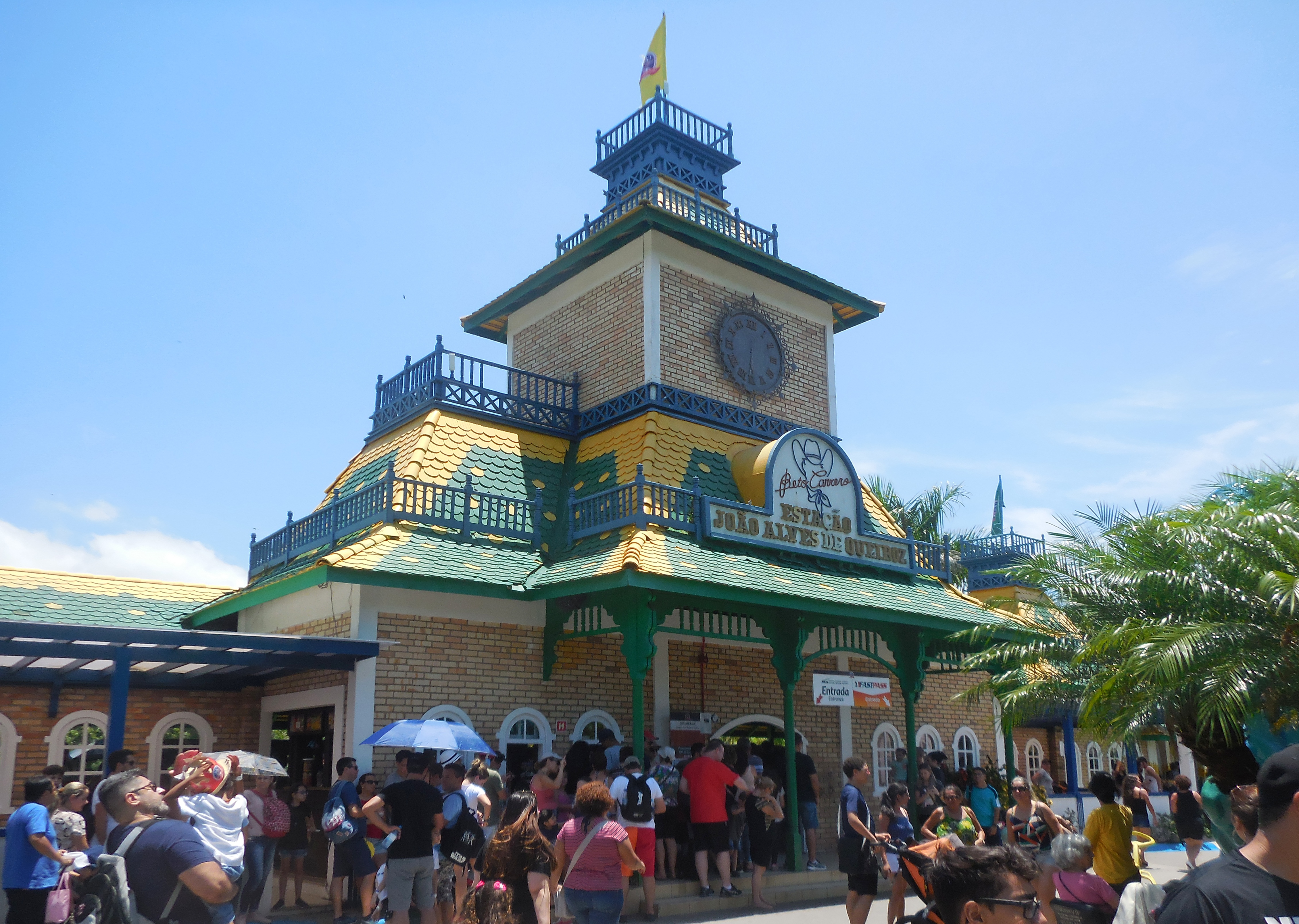 The João Alves de Queiroz station in the Beto Carrero World, in Penha, Santa Catarina, Brazil.